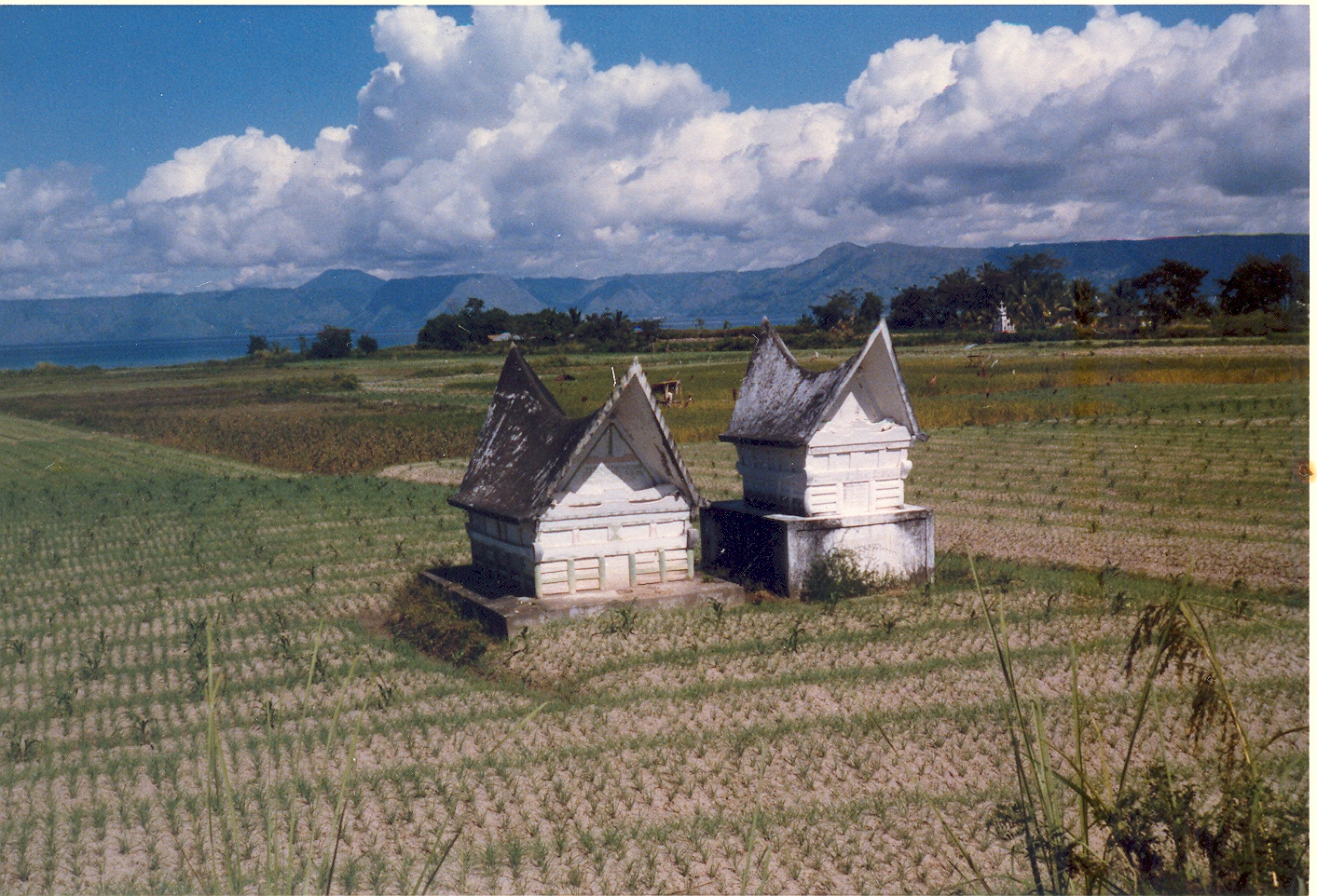 Batak tugu (tombs) on Samosir, Sumatera Utara